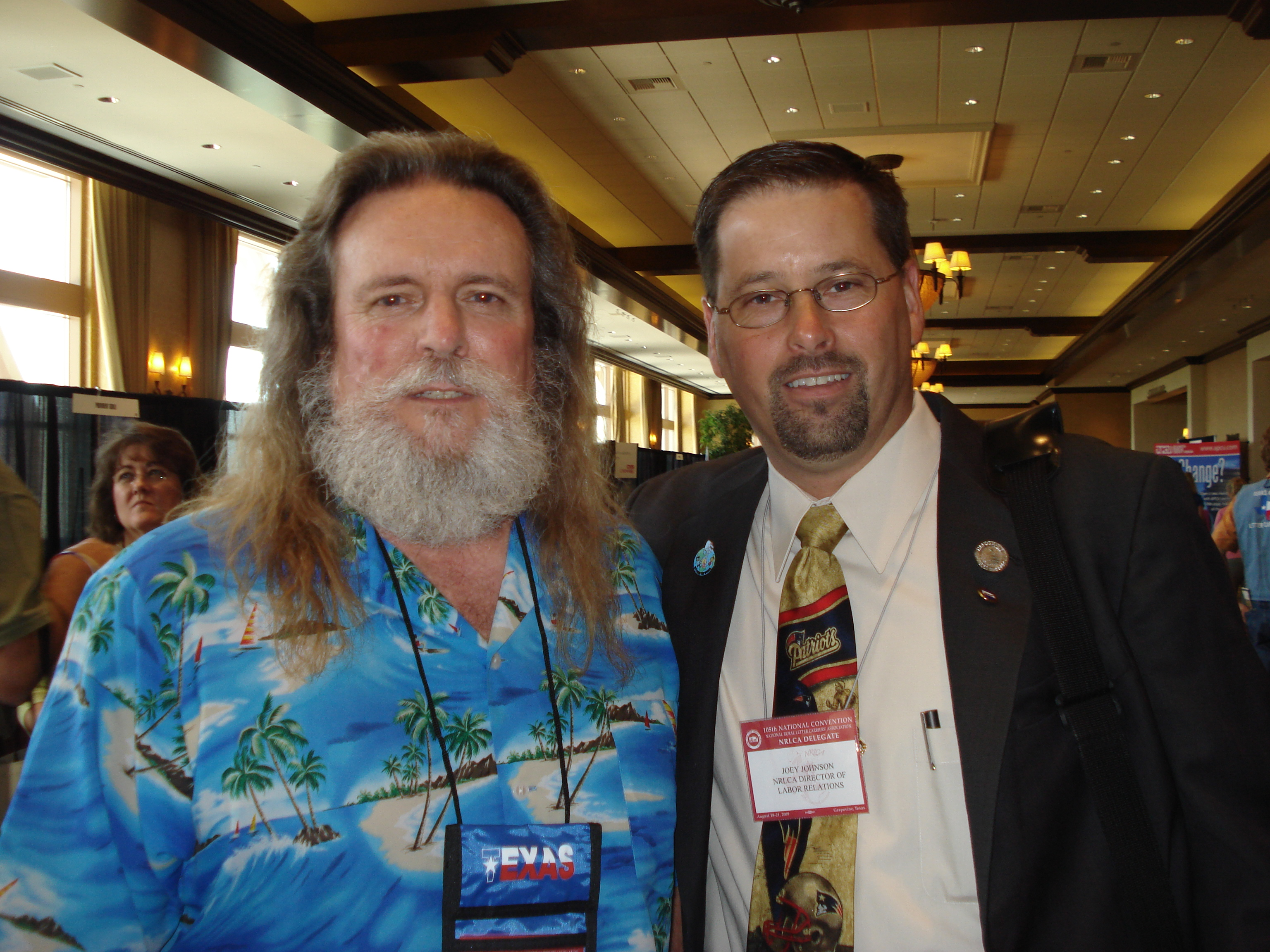 Director of Labor Relations